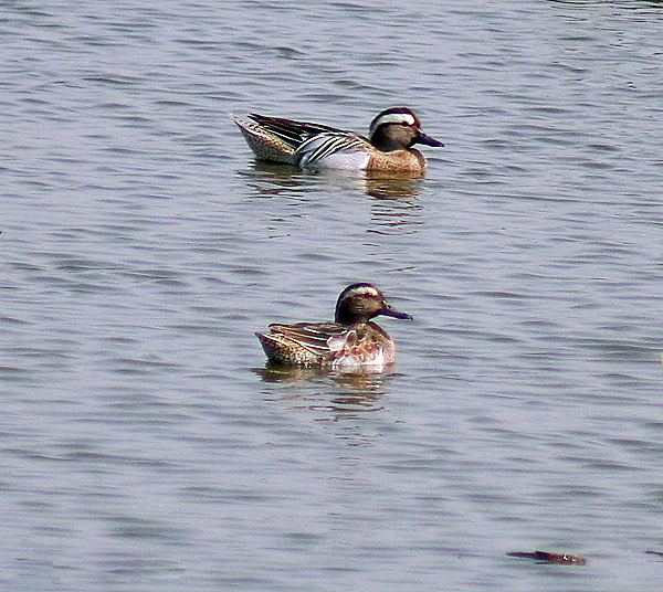 Garganey Anas querquedula in Kolkata, West Bengal, India.